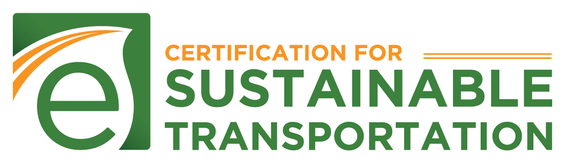 CST logo updated in 2019